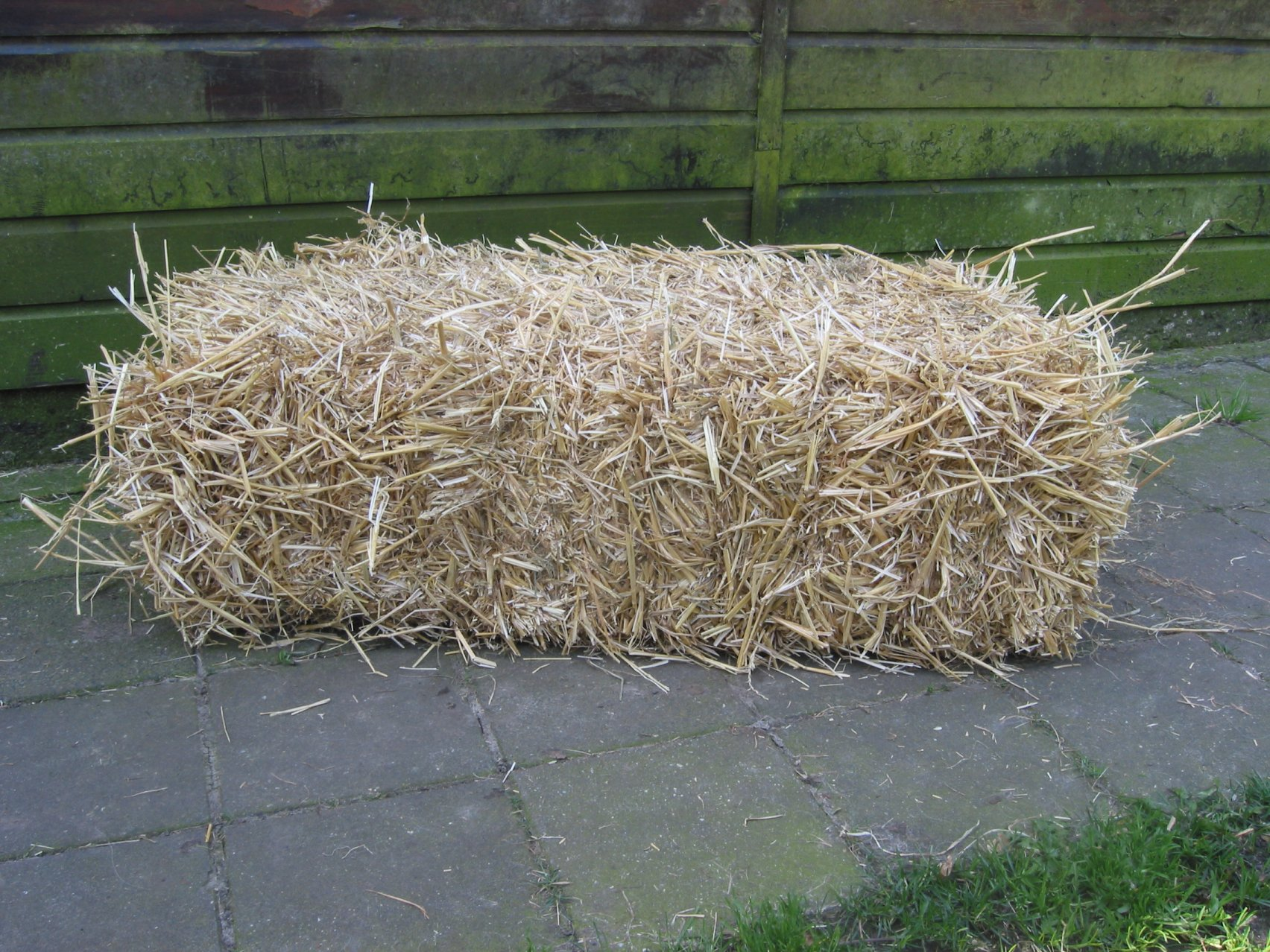 Wheat (Triticum aestivum) straw bale